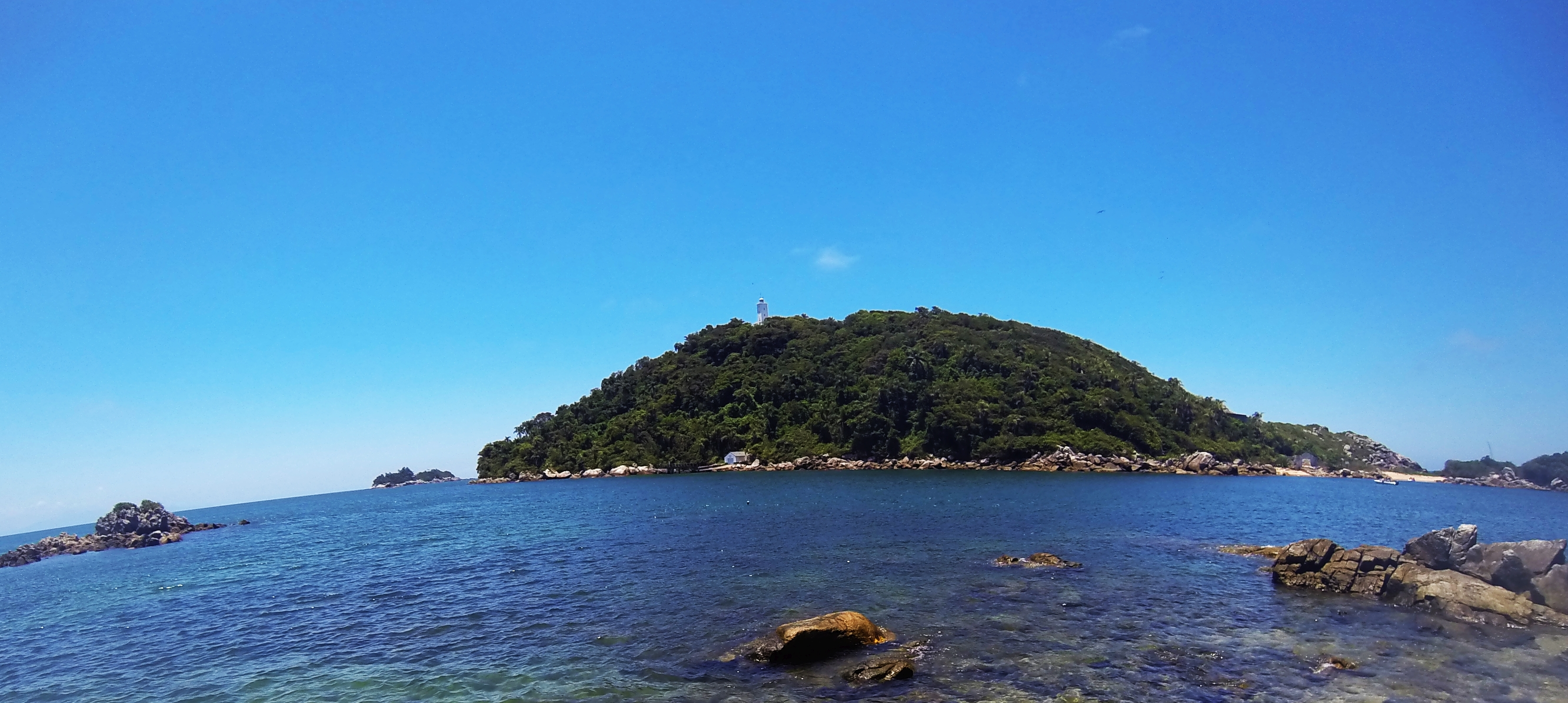 Ilha da Paz em São Francisco do Sul